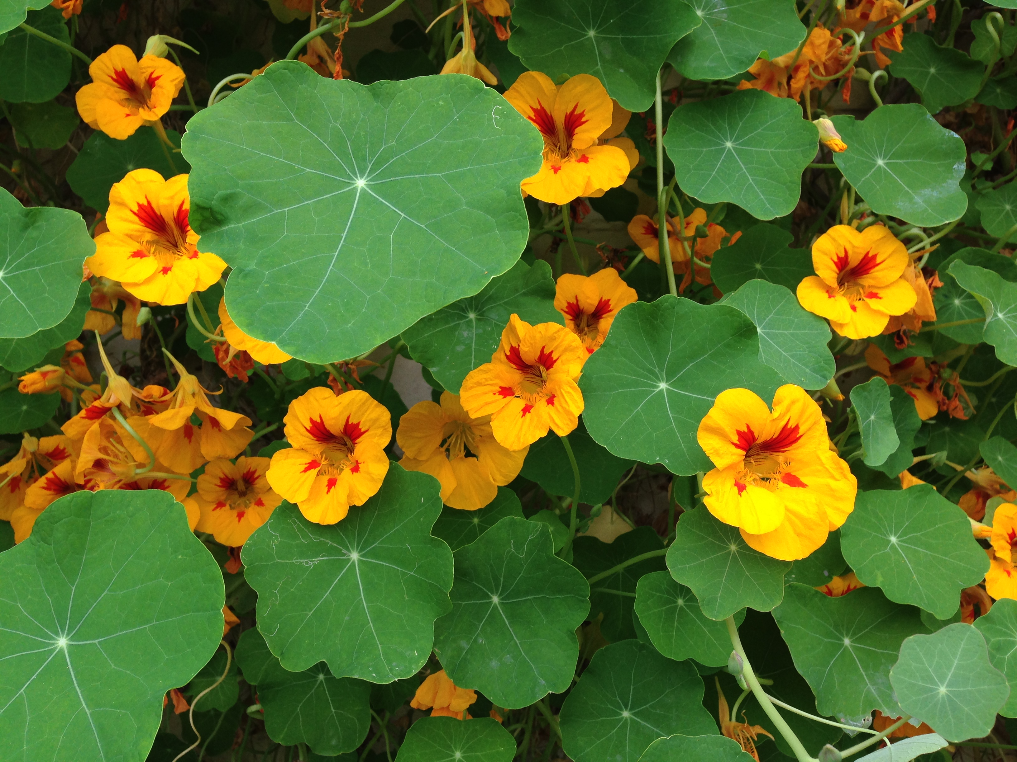 A bed of flowering garden nasturtiums (Tropaeolum majus), with yellow petals and red hearts.